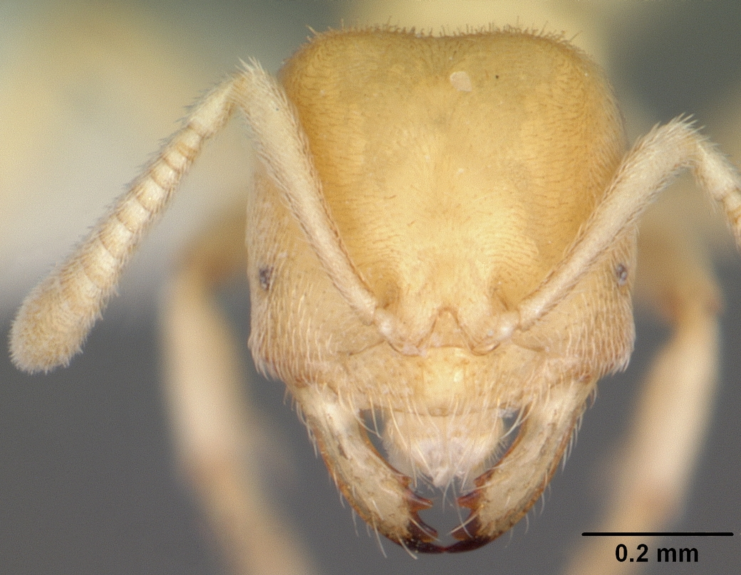 Head view of ant Acropyga epedana specimen casent0006064.